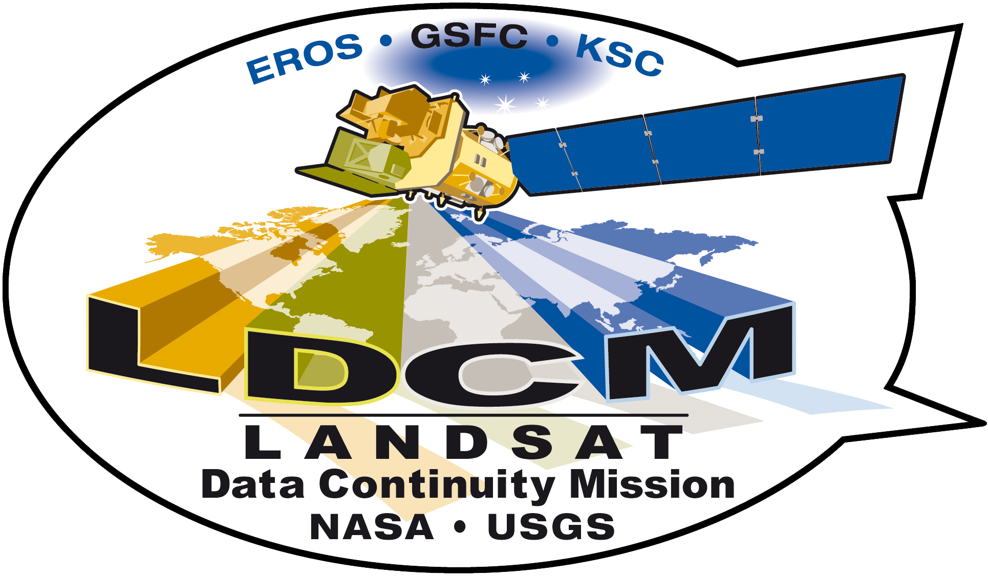 Landsat 8 LDCM Mission Patch